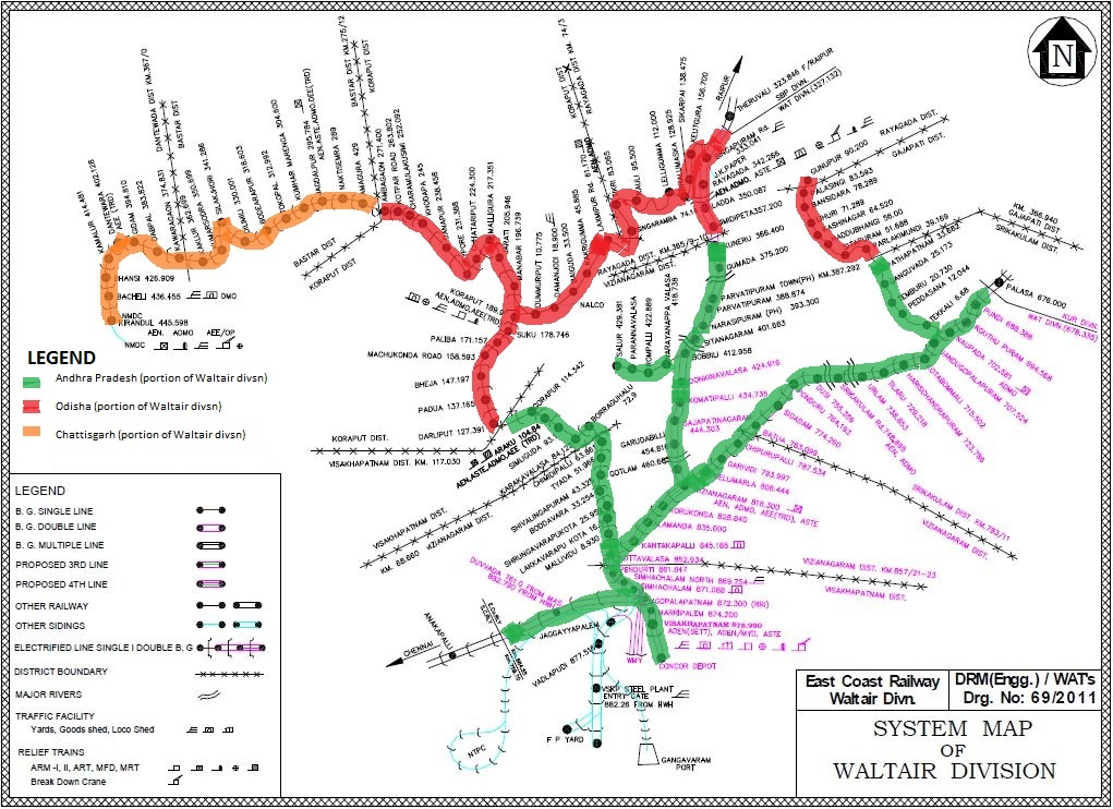 Former Waltair railway division's statewise break-up